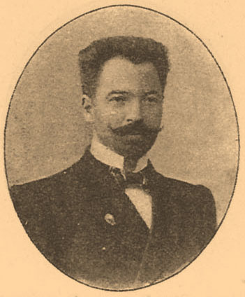 Illustration from Brockhaus and Efron Encyclopedic Dictionary (1890—1907)